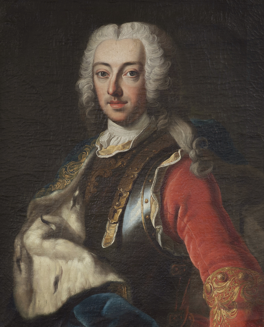 Fürst Karl zu Löwenstein